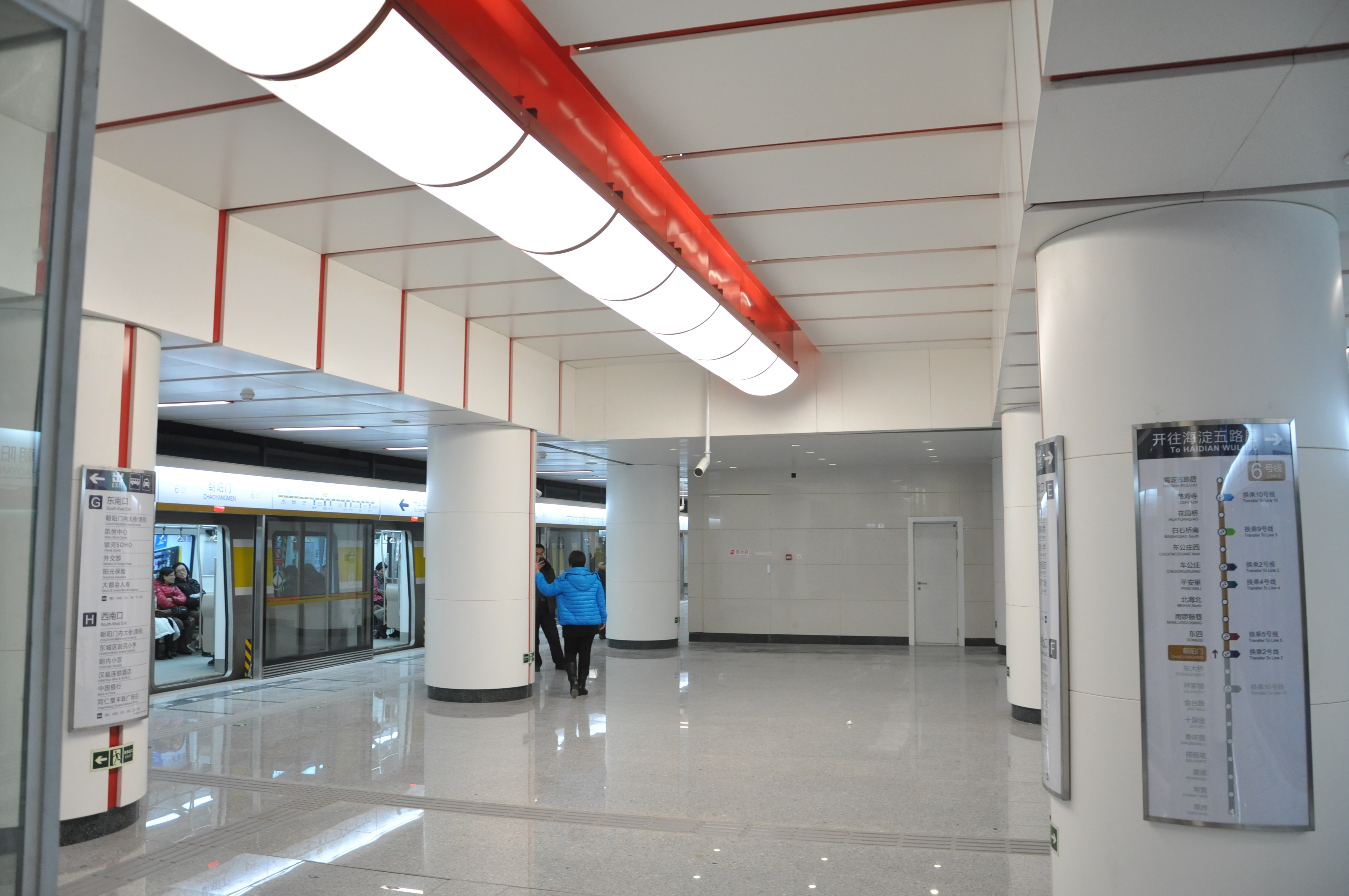 Platform of Chaoyangmen station, Line 6, Beijing Subway.